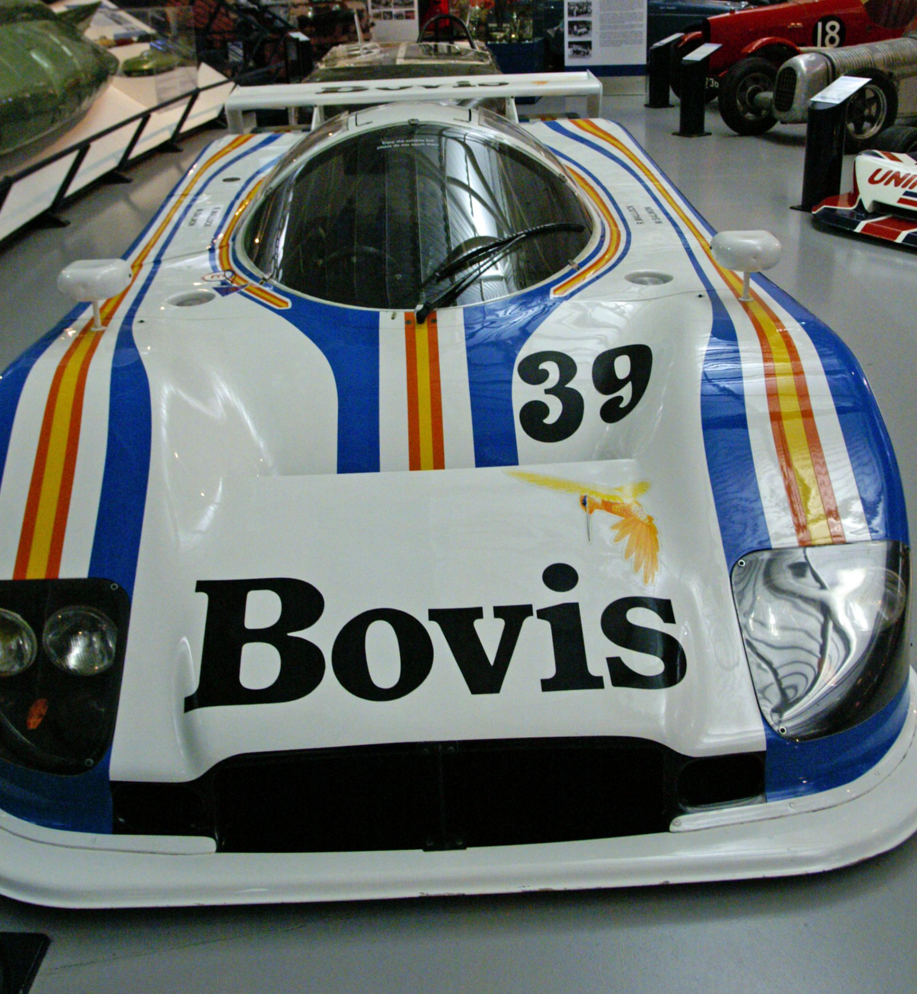 Heritage Motor Centre, Gaydon, Warwickshire World Sportscar Championship and Le Mans racer